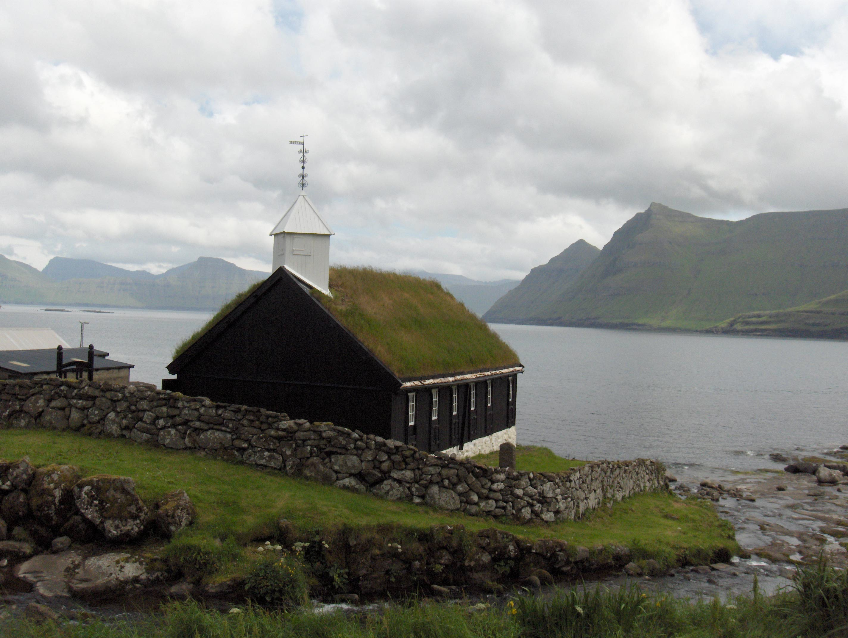 Exterior of Funningur Church, Eysturoy, Faroe Islands